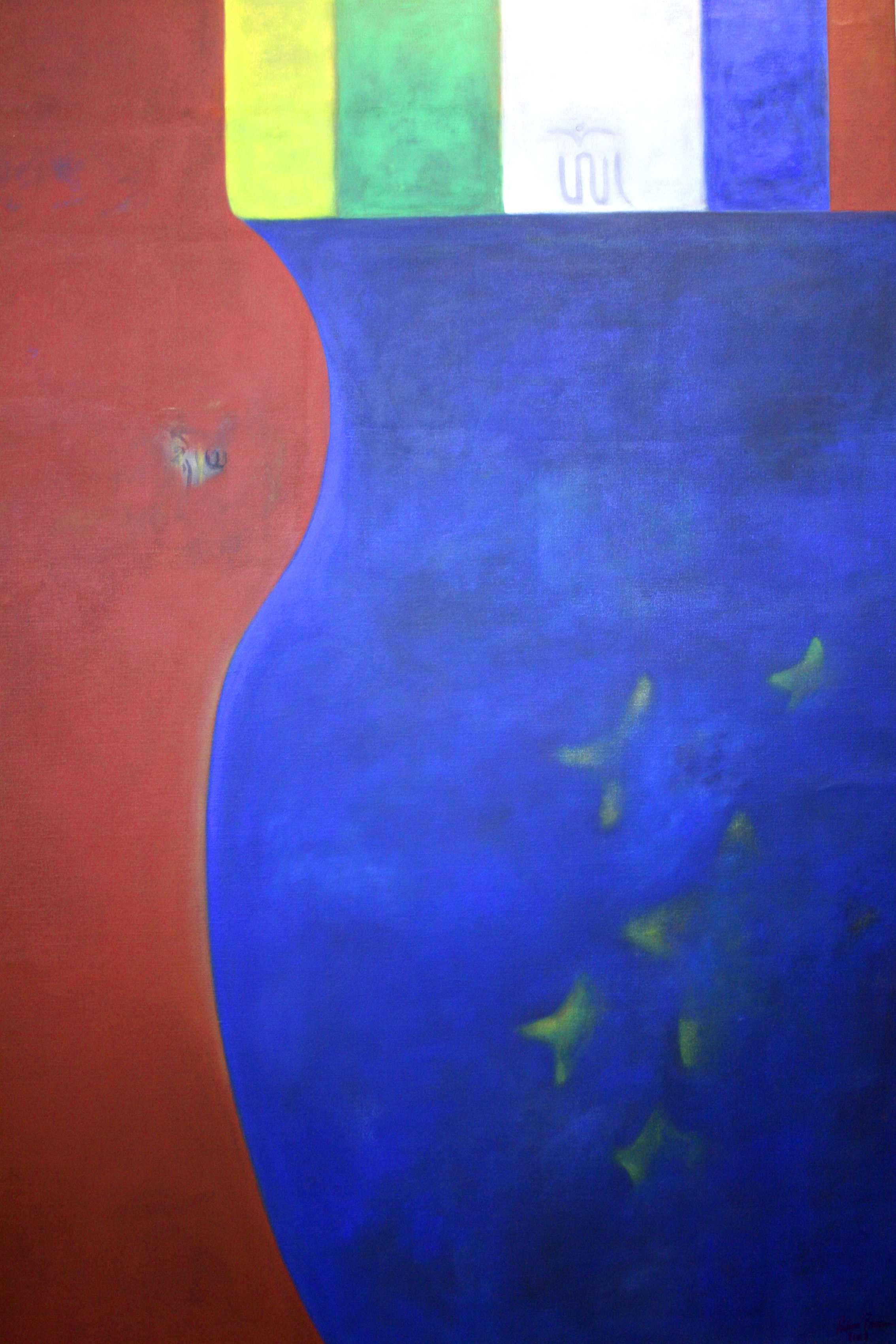 detail of artwork for "visionary artists for tibet" exhibition (